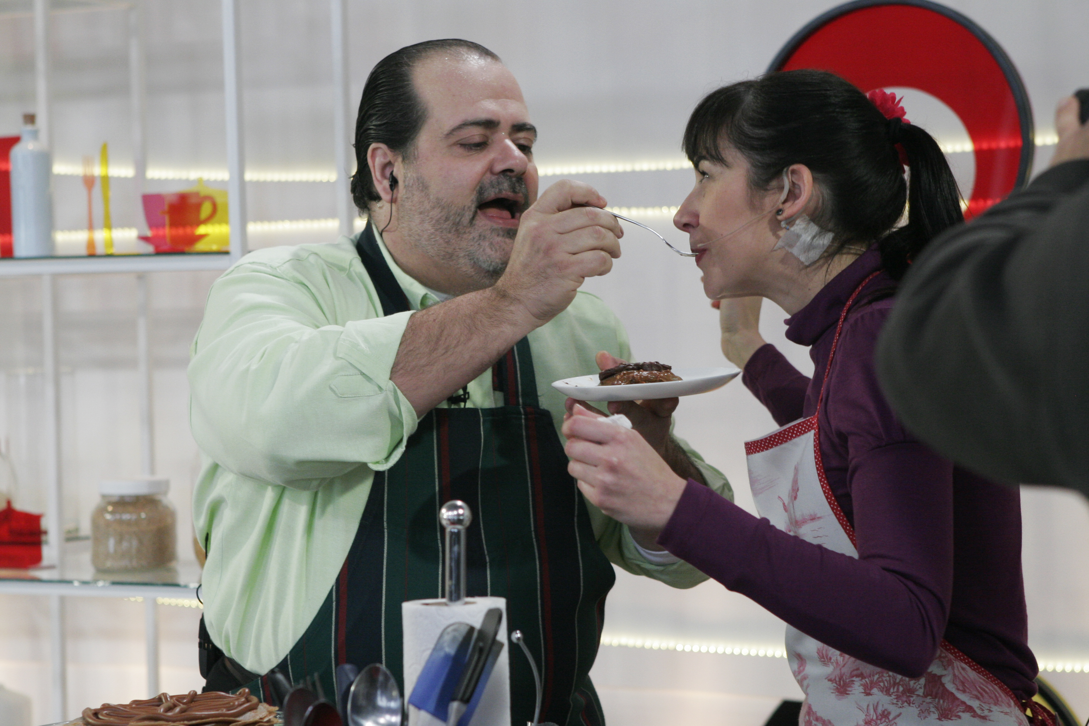 Argentine chef Guillermo Calabrese, host of Cocineros Argentinos, at the 2011 Tecnópolis fair, in Villa Martelli. Photo: Laura Szenkierman/Tecnópolis.